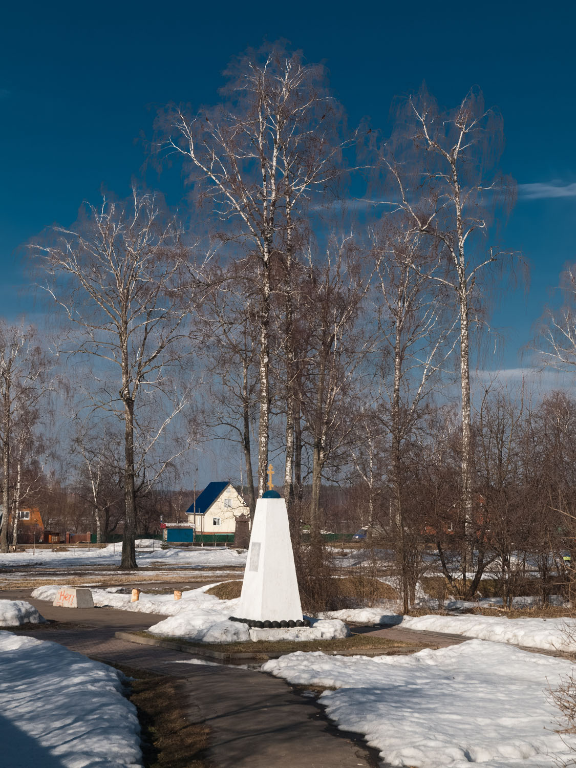 Monument to the fallen soldiers (1916), Bronnitsy, Moscow Oblast.